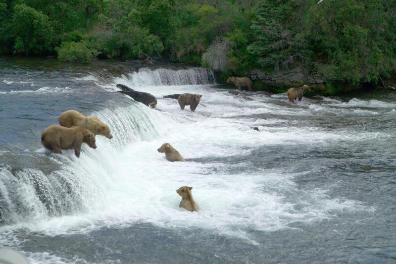 Webcam Location: Katmai National Park and Preserve Brooks Falls Wildlife Viewing Platform Location of Park Unit: Alaska Image Type: Primarily Natural Environment Description: "Katmai National Park and have partnered to bring the bears to you." "Brooks Falls Wildlife Viewing Platform at Brooks Camp." "Brooks Falls Cam: Watch bears gather en mass to fish for salmon at Brooks Falls. In July, as many as 25 bears have been seen fishing at Brooks Falls at the same time!" Source: NPS. Note: Streaming web camera image. May open in a new media player. Reference image is from NPS Katmai and shows "Brown bears gathering to feast on sockeye salmon." "This content is currently not online." Source: Date Online: 2014-00-00 Type of Webcam: Streaming Related Webcams: Katmai National Park and Preserve Operational Status: May be offline for the season Primary Manager of Webcam: National Park Service and Image Credit: National Park Service and • I represent Montana State University Library and we are releasing this image into the Creative Commons.